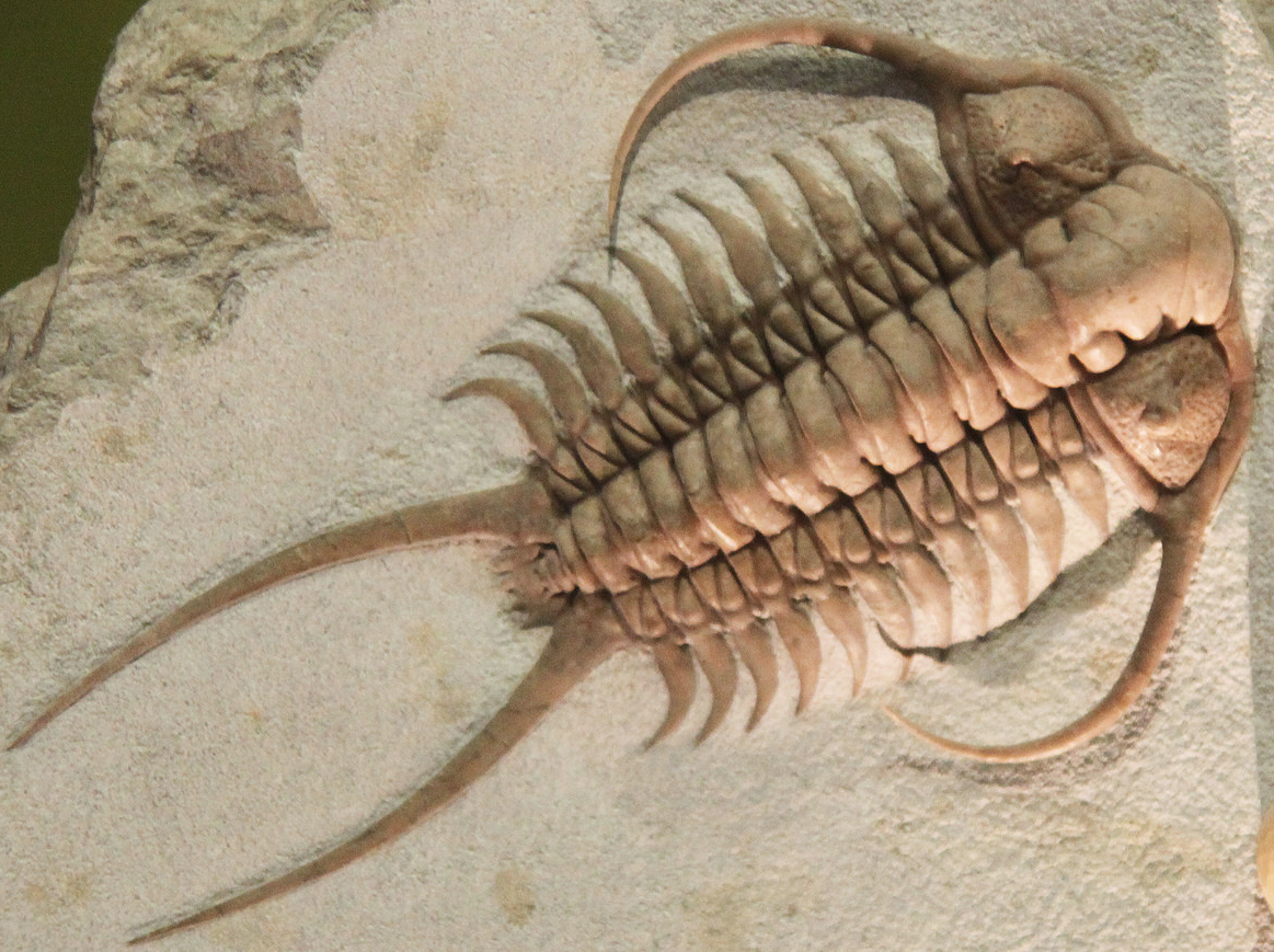 Fossil Cheirurus ingricus on display in the Sant Hall of Oceans in the Smithsonian Museum of Natural History. Cheirurus ingricus is a species of trilobite